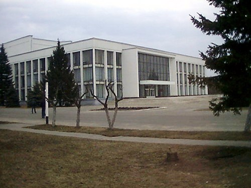 Recreation center Myshcovichi